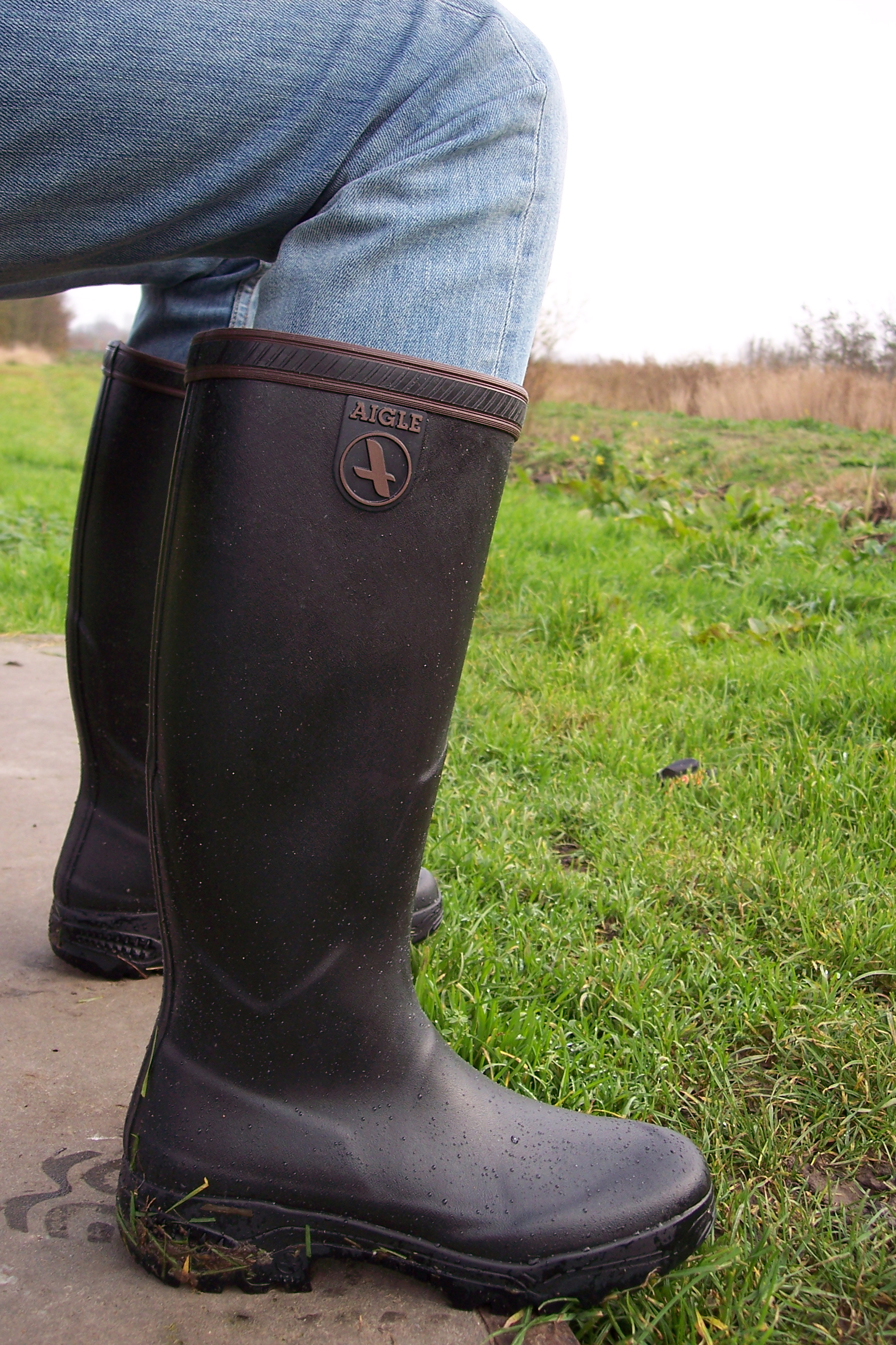 Rubber boots (Aigle Parcours 2, black)